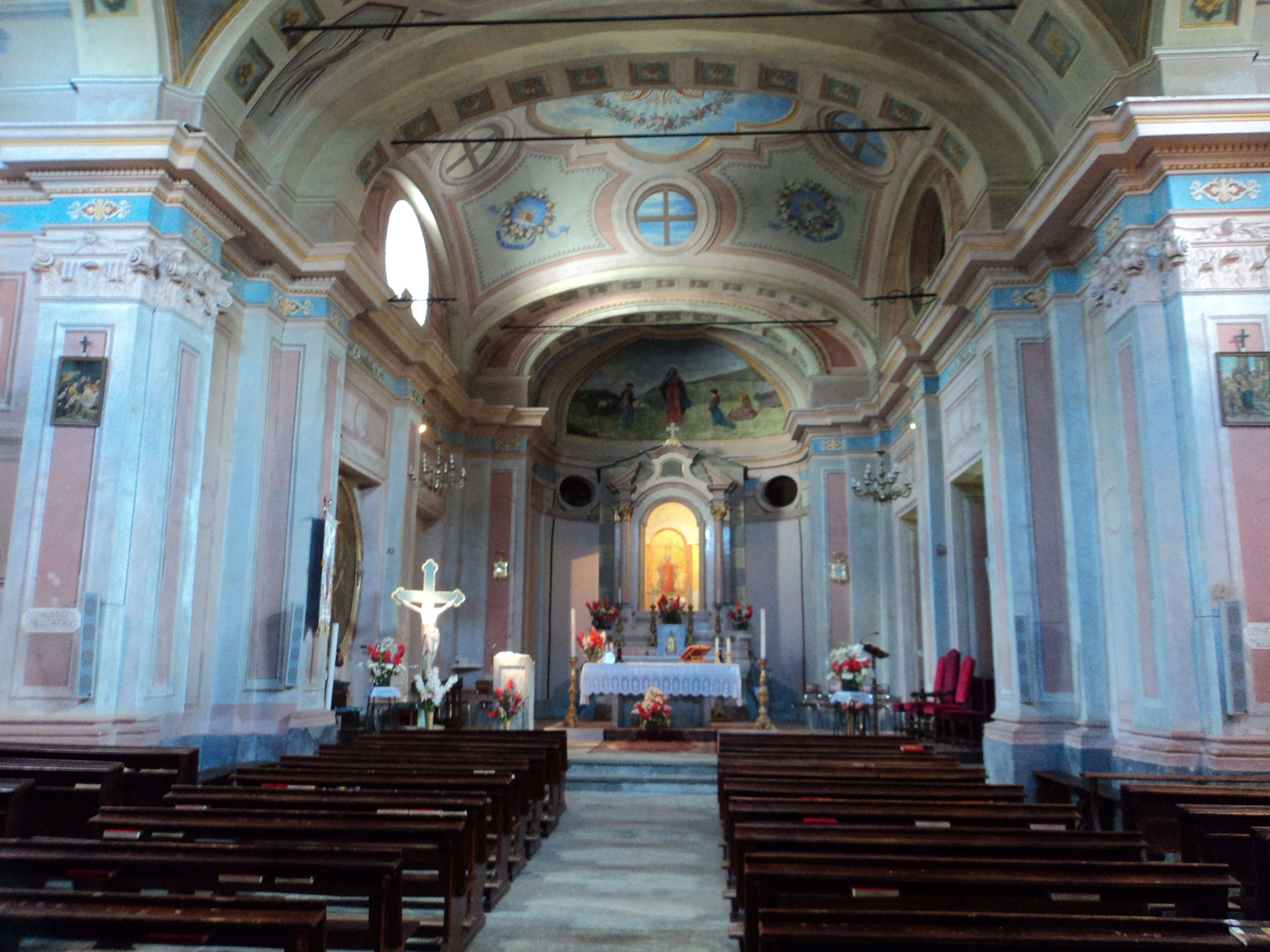 Valmala Sanctuary (CN, Italy)